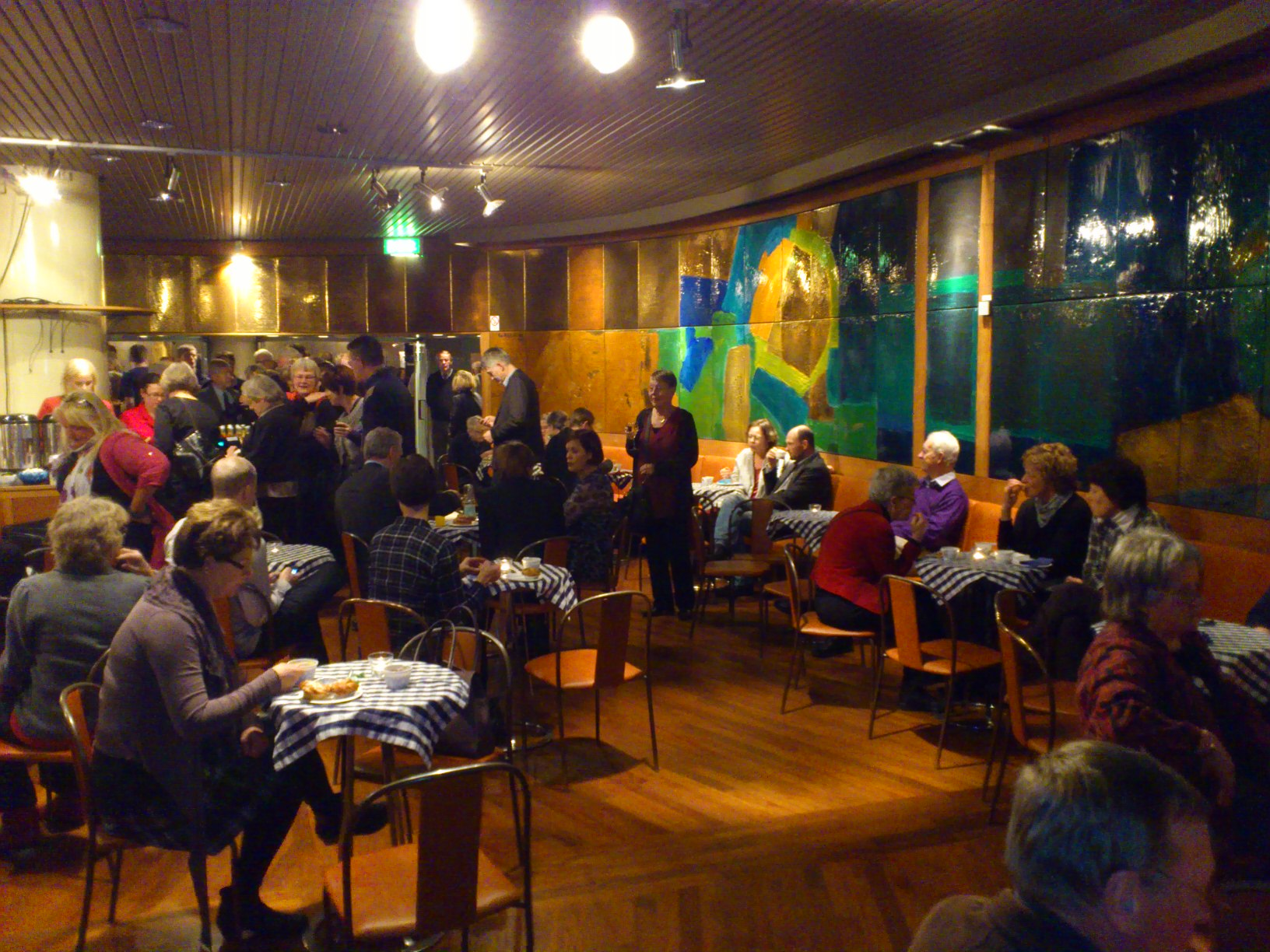 The theatre café in the Hjalmar Bergman Theatre, Örebro, Sweden